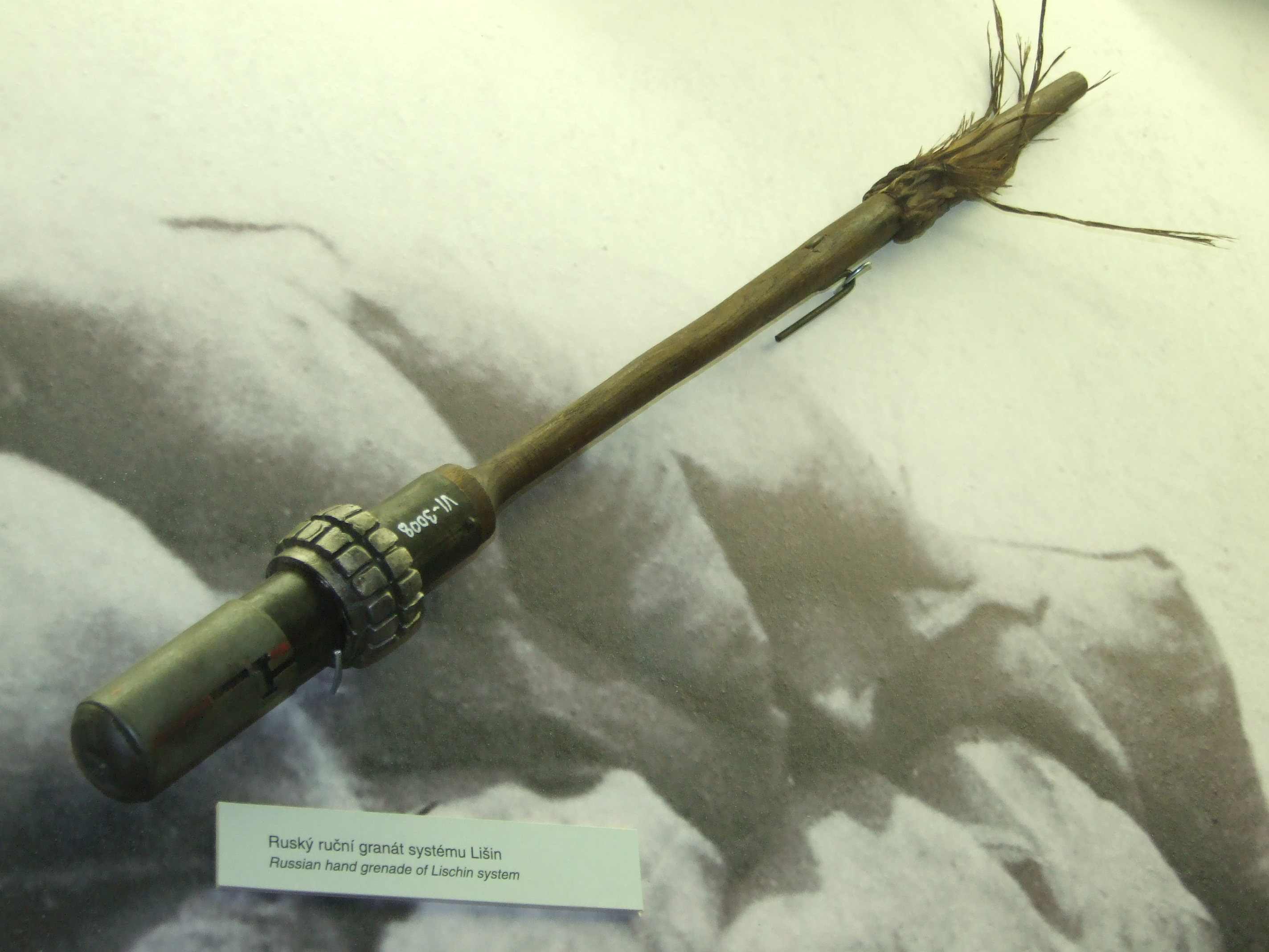 Russian hand grenade of Lischin system. Military museum of Prague.